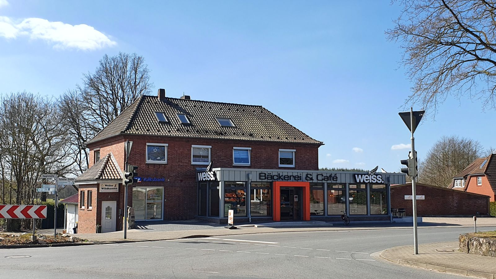 Bakery Welle